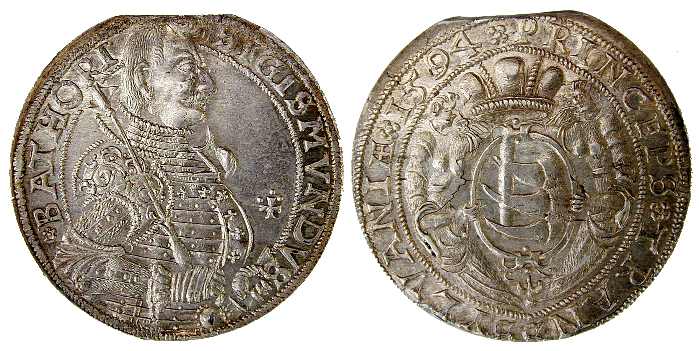 AR Taler (28.88g.),*SIGISMVND - BATHORI / PRINCEPS * TRANSSYLVANIAE * 1594 *, Dav.8803; NMR.179 #136.